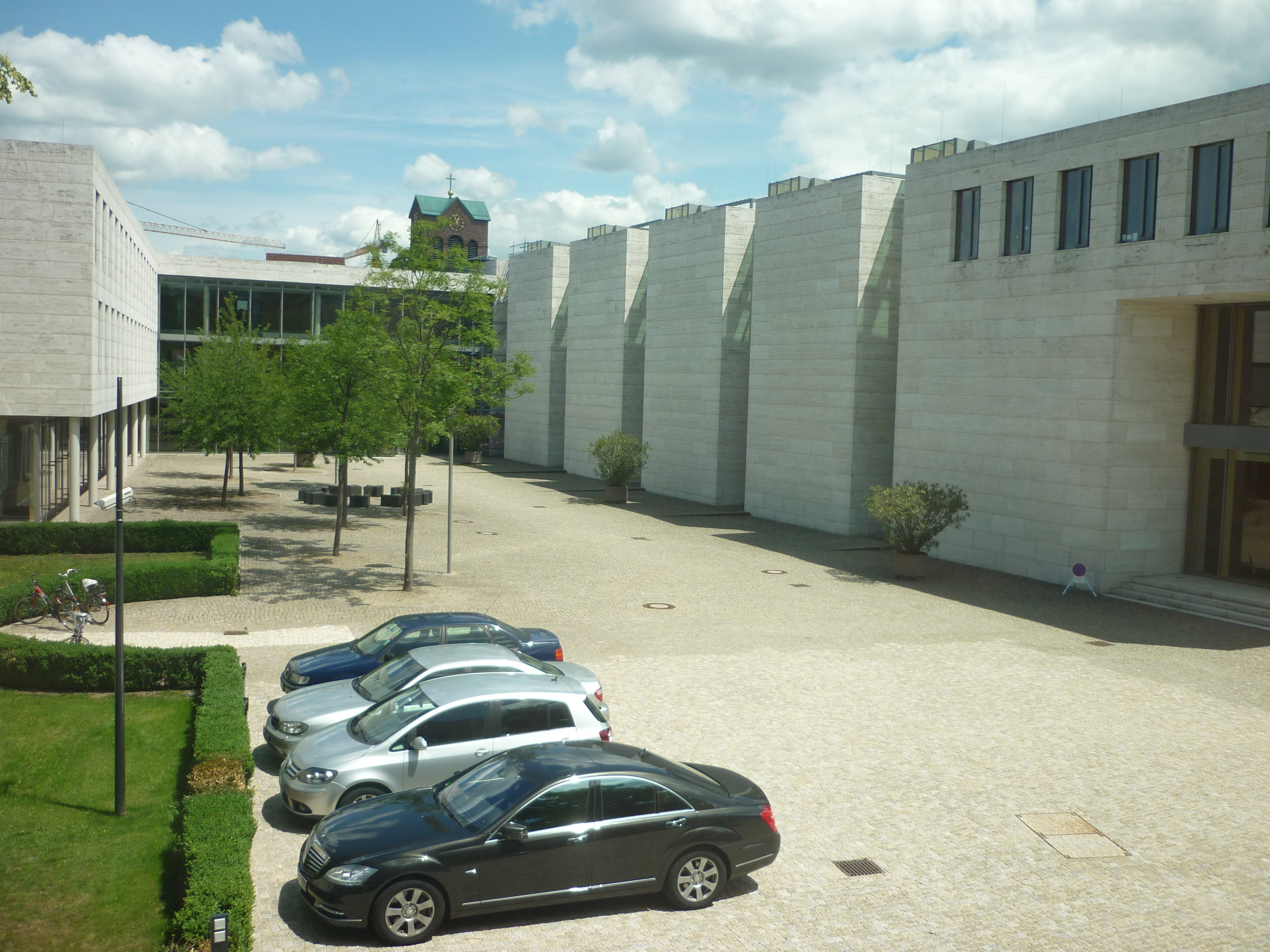 North building of the Federal Court of Justice of Germany, Karlsruhe, built 2000-2003. The courtyard of the U-shaped building opens to the central park.